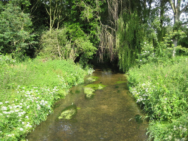 River Misbourne in Denham Country Park The Misbourne is a chalk stream that rises northwest of Great Missenden in SP8902 and runs for about 23 kilometres, as the crow flies, before ending where it joins the River Colne in TQ0585. Here, only about 1 kilometre upstream of the confluence with the Colne, it is still very shallow. This view was taken from the Denham Court Drive bridge.